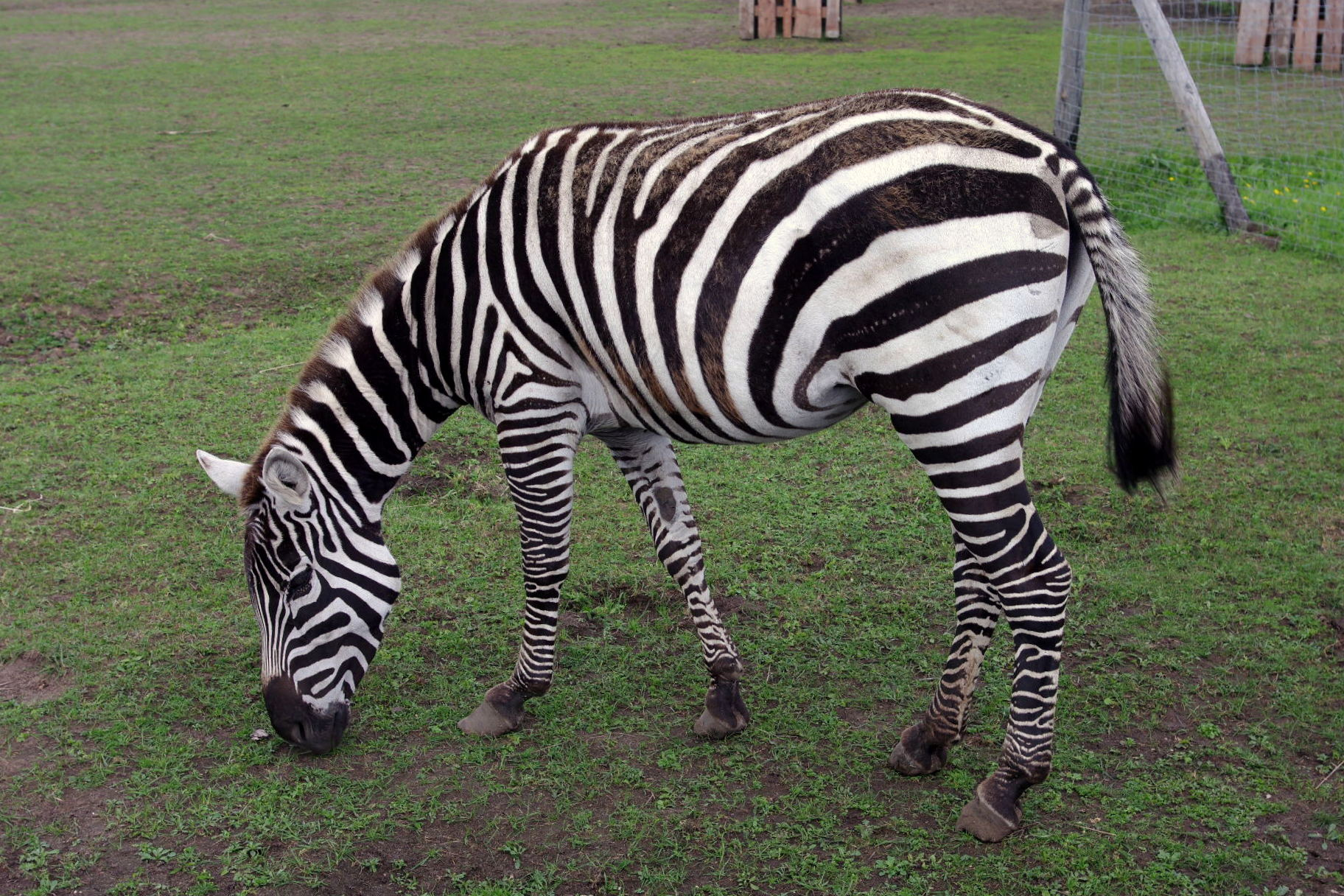 Maneless zebra at Safari Borysew Zoo, Poland